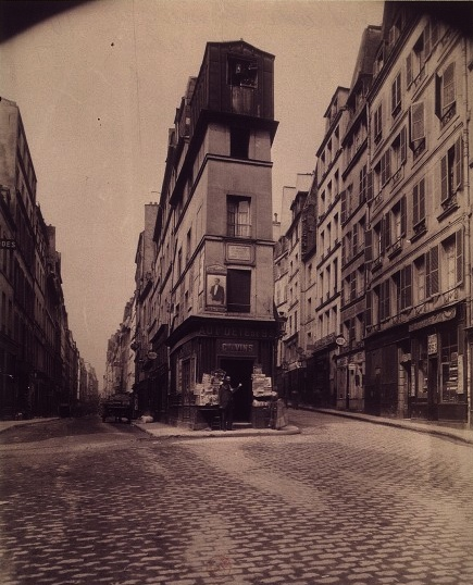 Rue de Cléry and rue d'Aboukir, Paris 2nd arr.